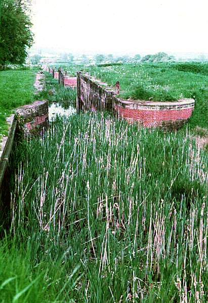 Devizes flight on the Kennet and Avon Canal prior to restoration. Reupload with purples removed, and .png changed to .jpg